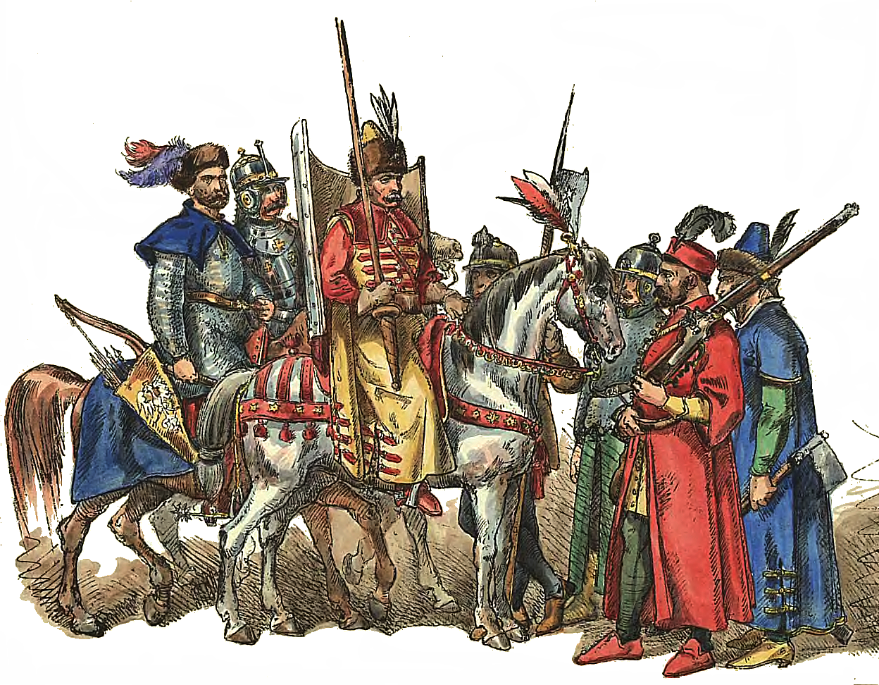 Polish-Lithuanian Army 1576-1586